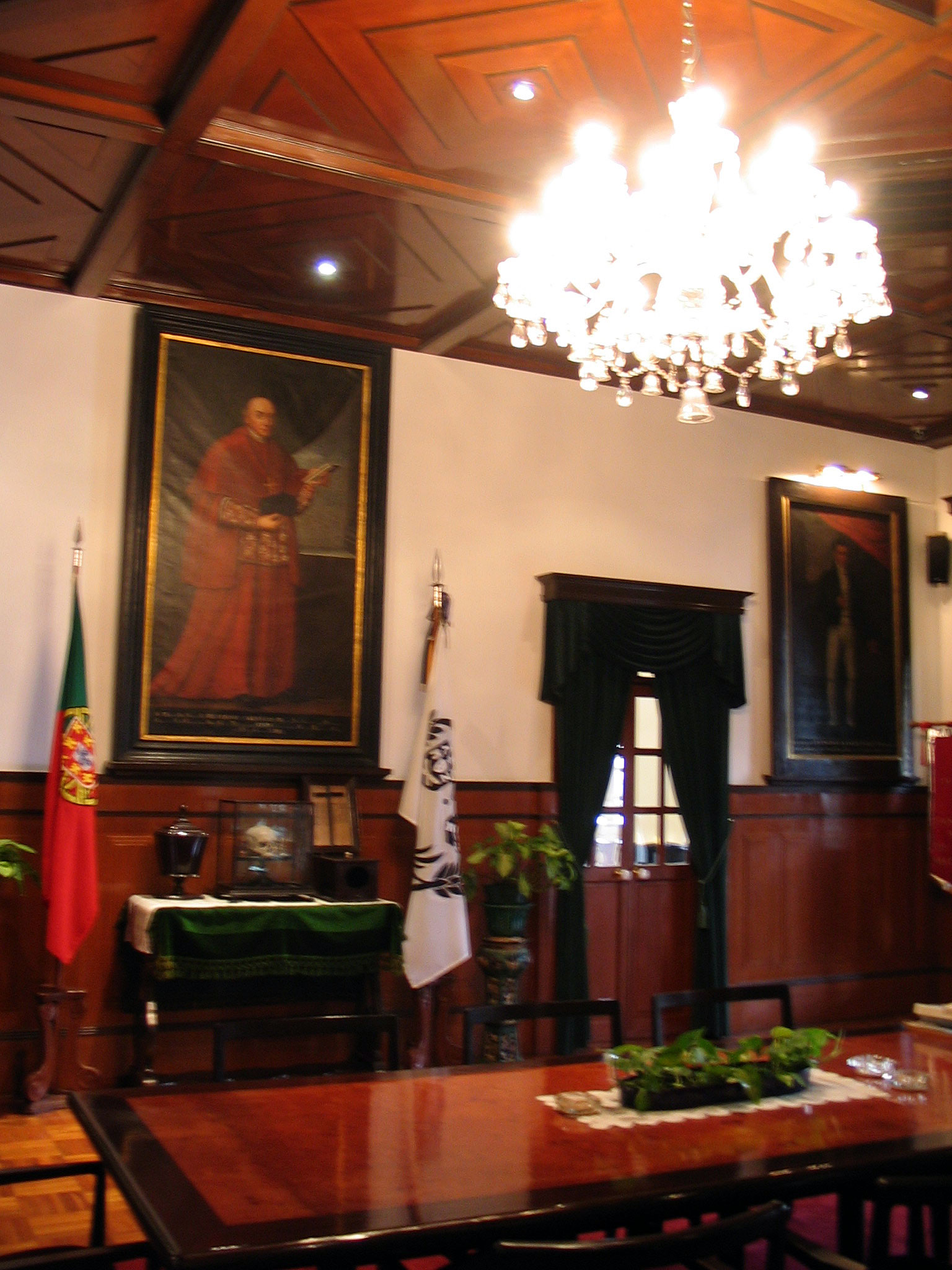 Photo of Museum of the Holy House of Mercy taken by User:Minghong (March 20, 2006).